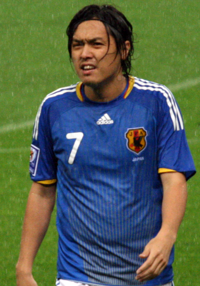 Yasuhito Endo, during Japan's world cup qualifier against Bahrain on June 22, 2008